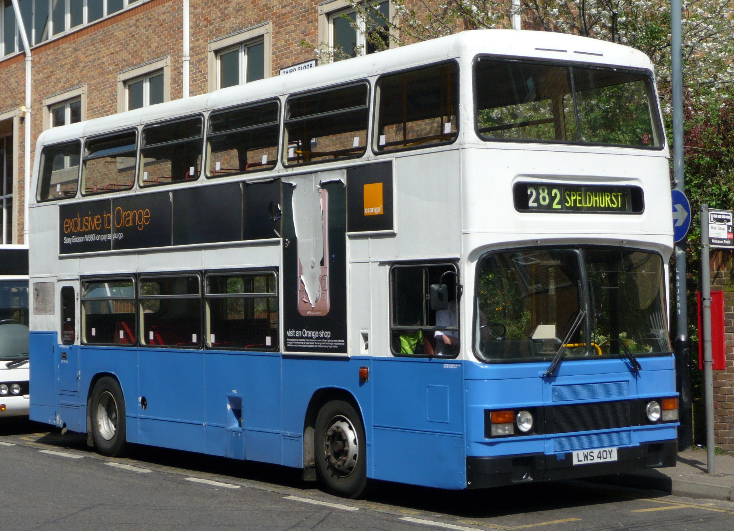 Nu-Venture 2040 (LWS 40Y), a Leyland Olympian/Roe, in Meadow Road, Tunbridge Wells, on route 282.